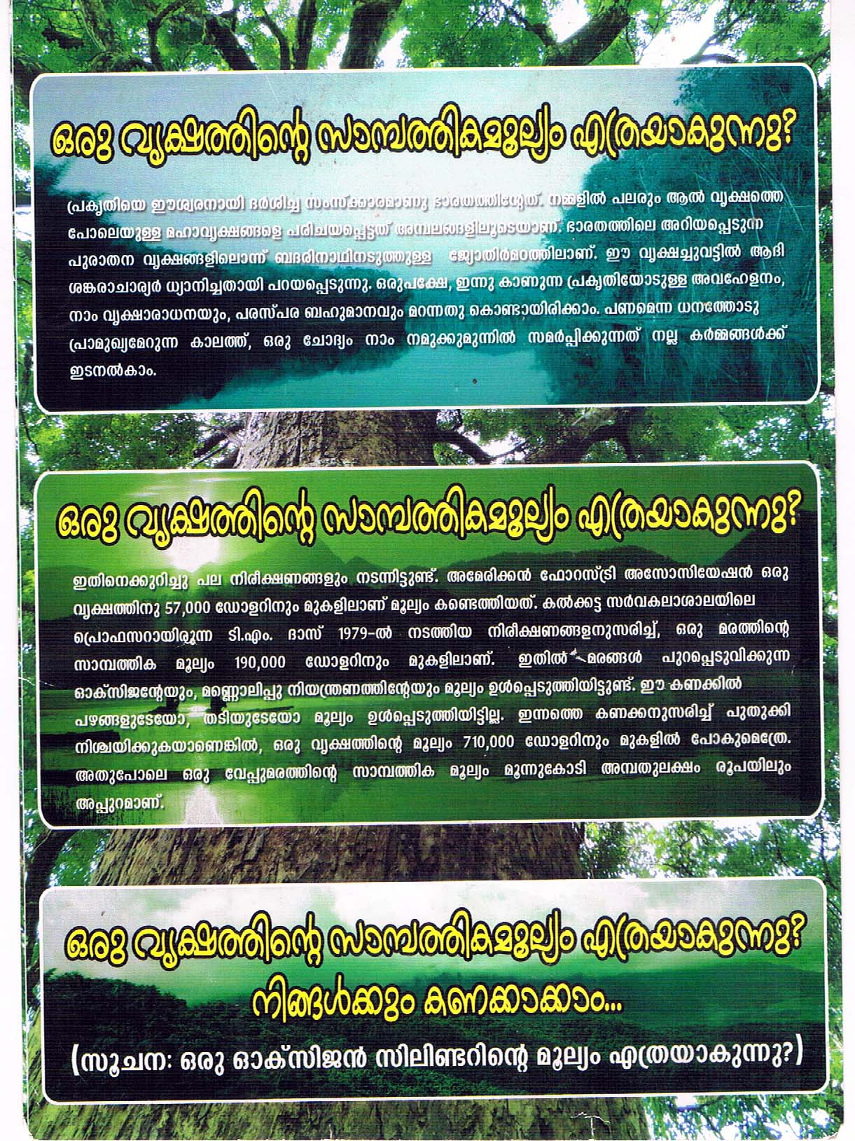 This informational certificate has a write-up indicating monetary value of a tree. This certificate was issued to the visitors of Parambikulam Tiger Reserve. Credits: Ajith, Parambikulam Tiger Conservation Foundation